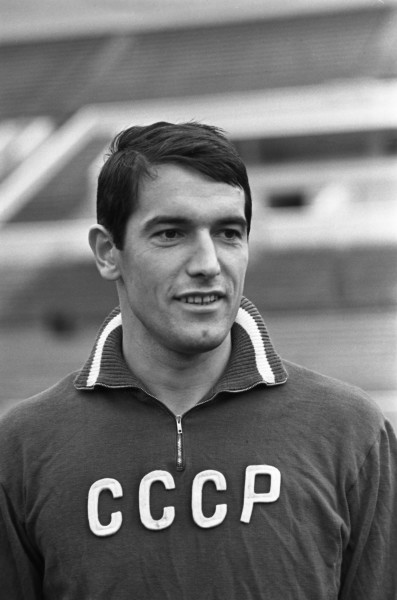 Soviet soccer player, player of the USSR national team Valery Voronin before the World Cup in England in 1966.